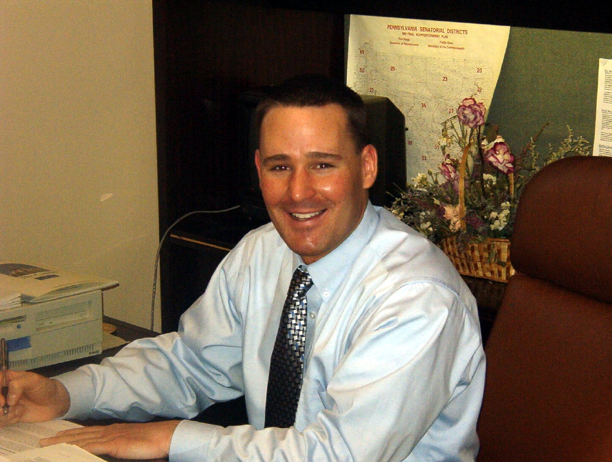 Portrait of Pennsylvania State Representative Adam Harris.